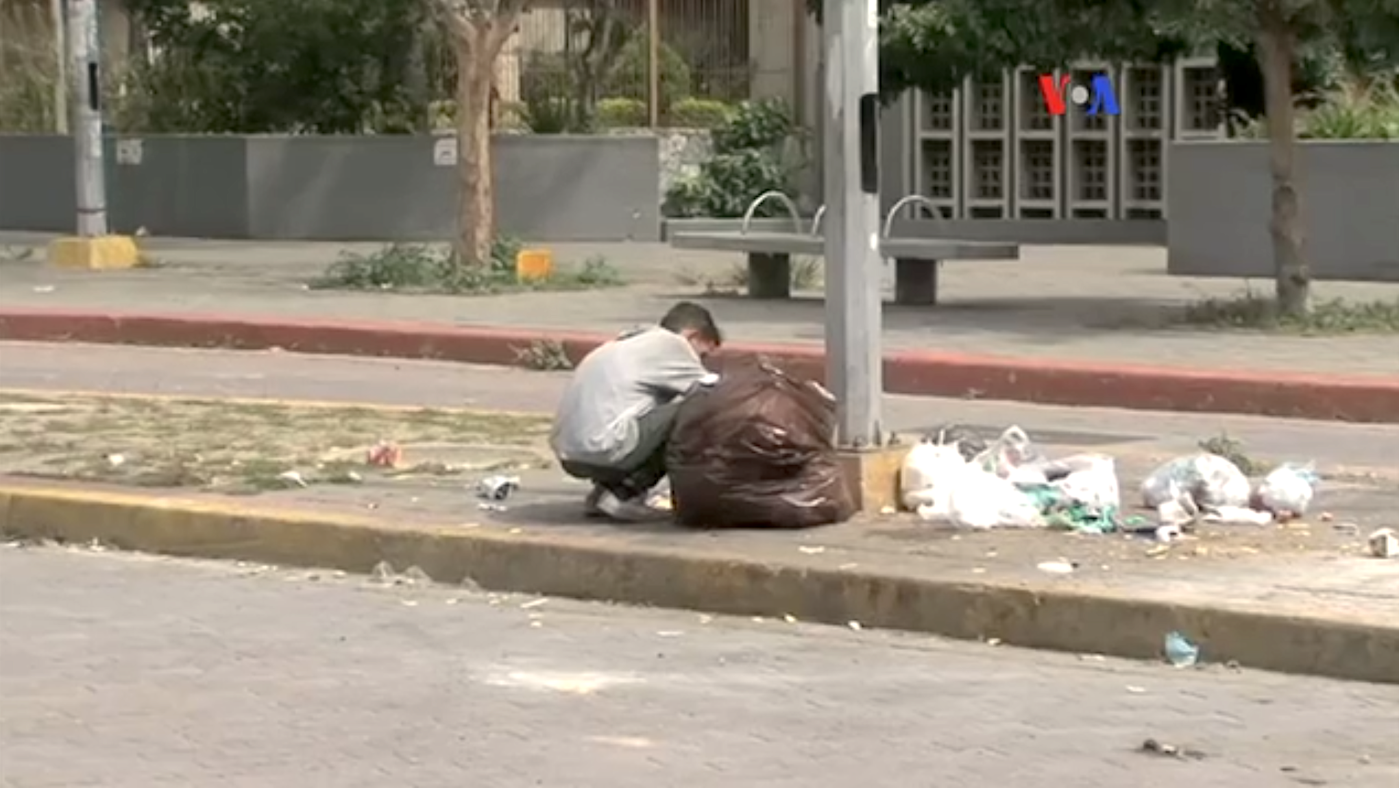 Venezuelan eating from the trash due to shortages in 2017.